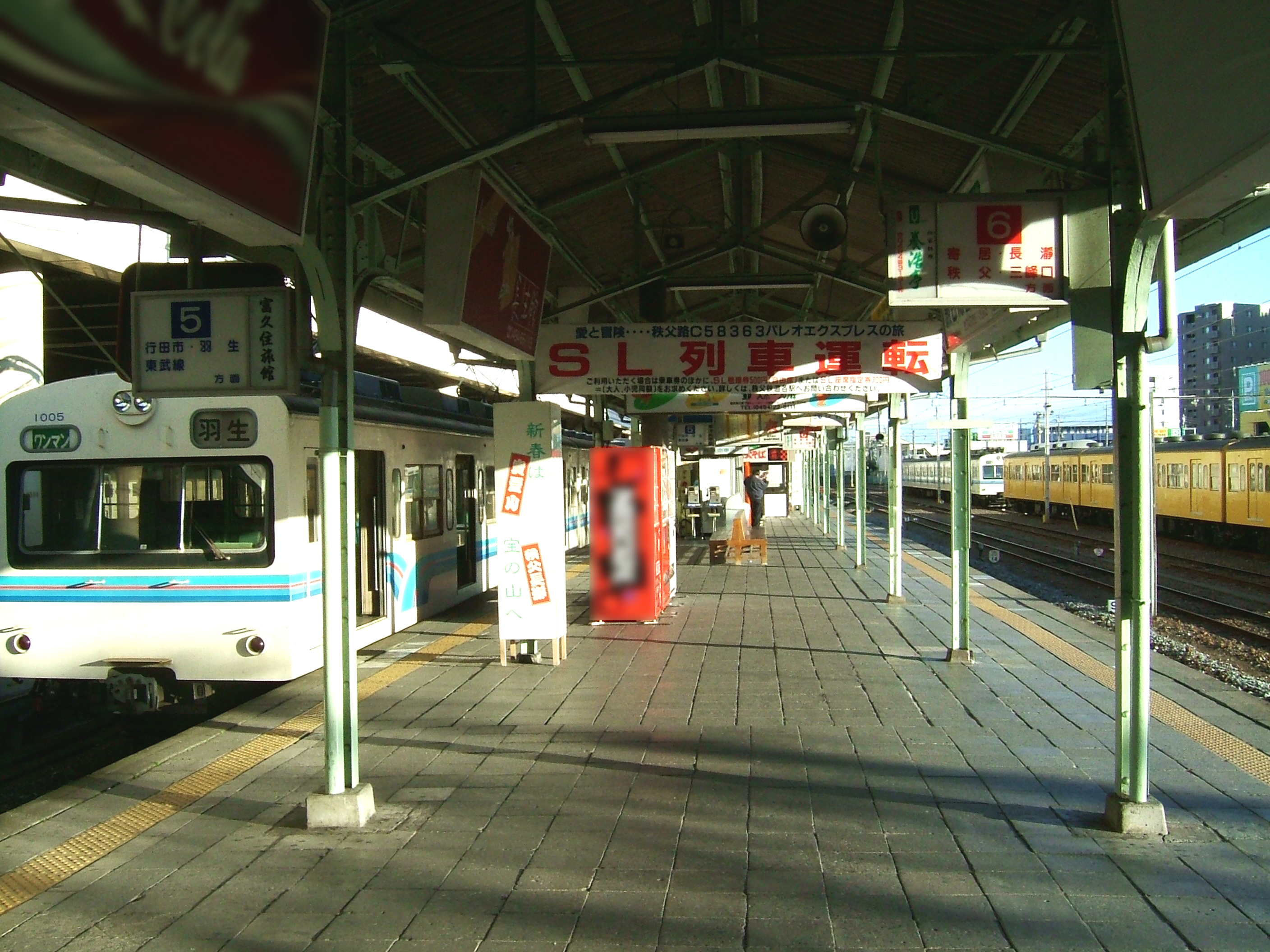 The platform at Kumagaya Station on the Chichibu Main Line